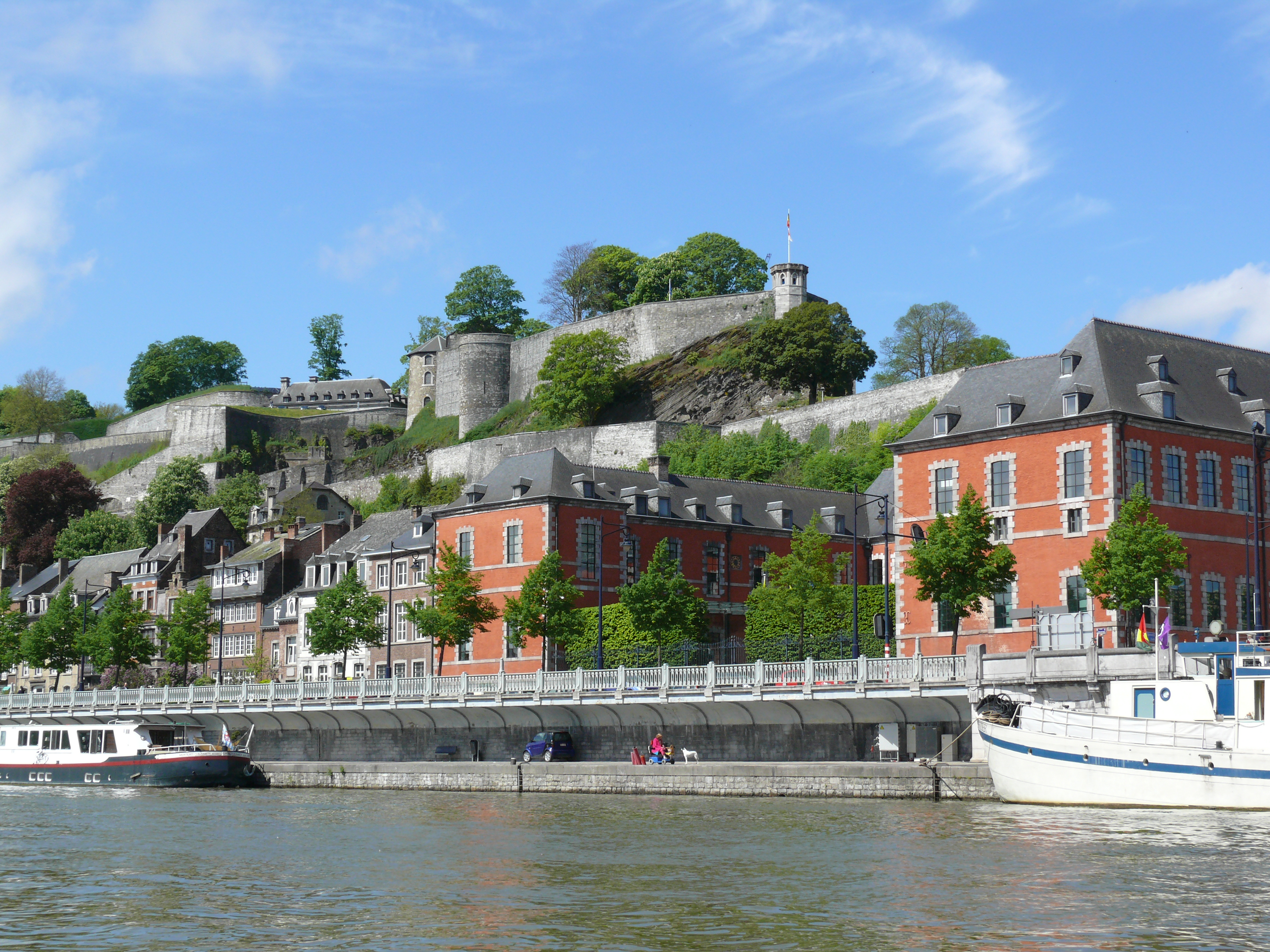 The Citadel of Namur